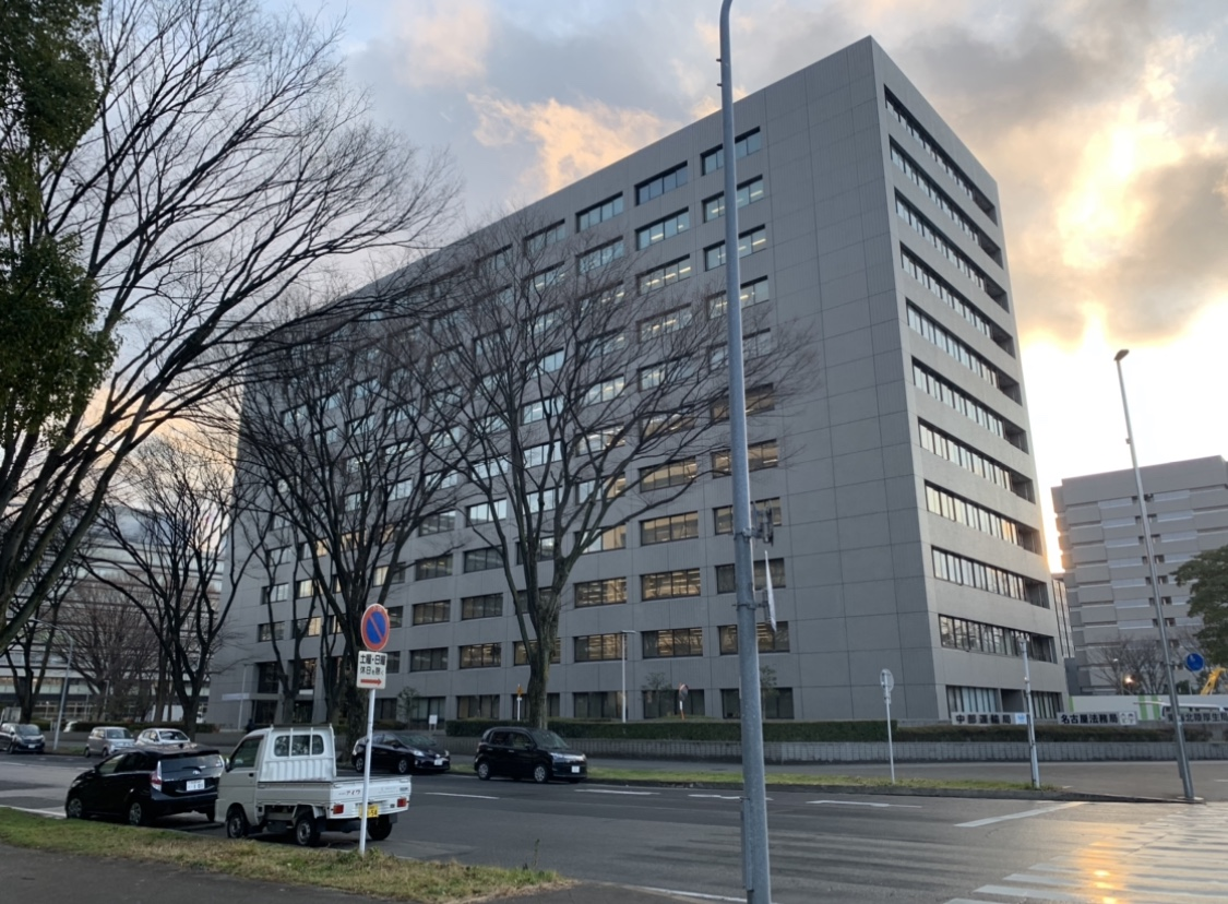 2020年2月10日16:50 撮影